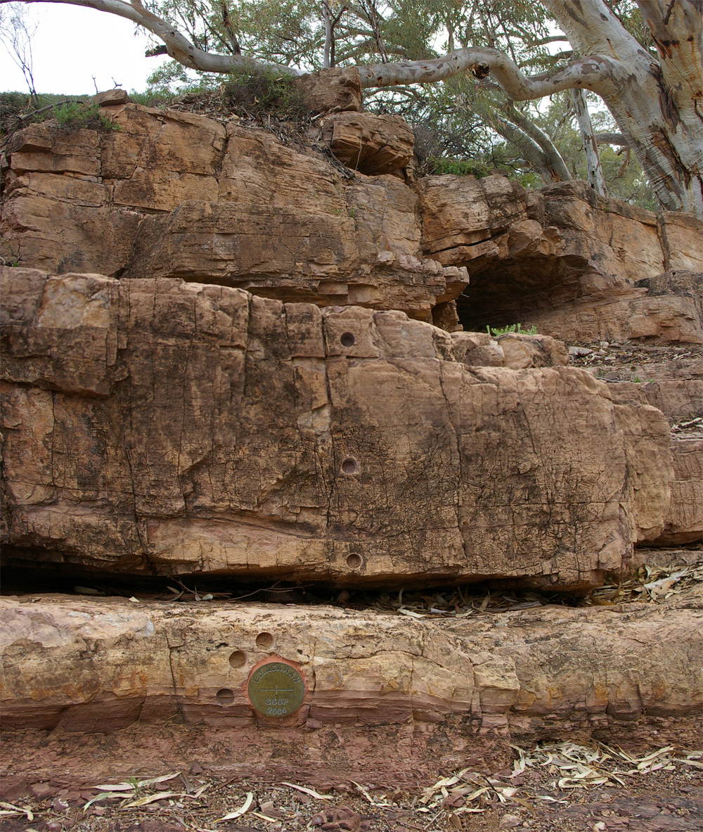 Photograph showing the 'golden spike' (bronze disk in the lower section of the image) of the Global Boundary Stratotype Section and Point (GSSP) for the Ediacaran period, located in the Flinders Ranges in South Australia. Able to be read when you click through to the full image. The core holes were made to study changes in the earth's magnetic field. (Source - sign at location).